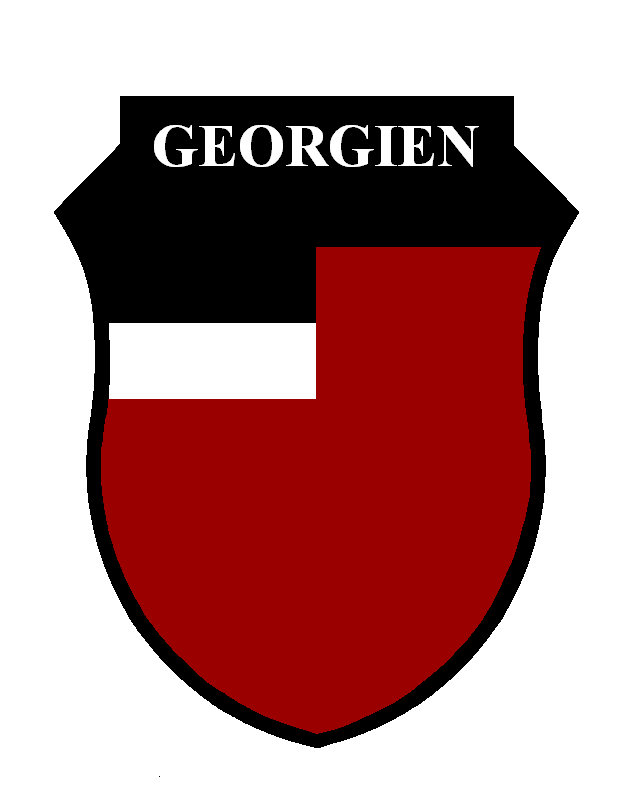 Badge and Insignia of Wehrmacht’s Georgian Legion.